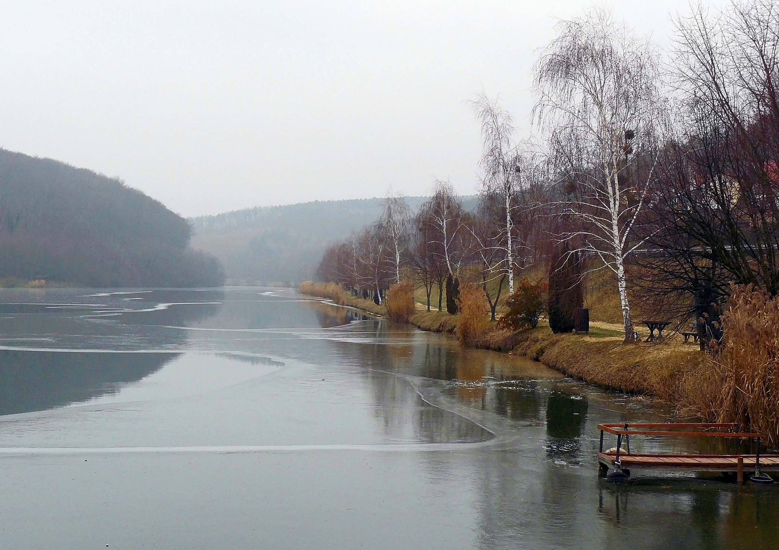 View of the lake of Zalacsány in winter 2008.